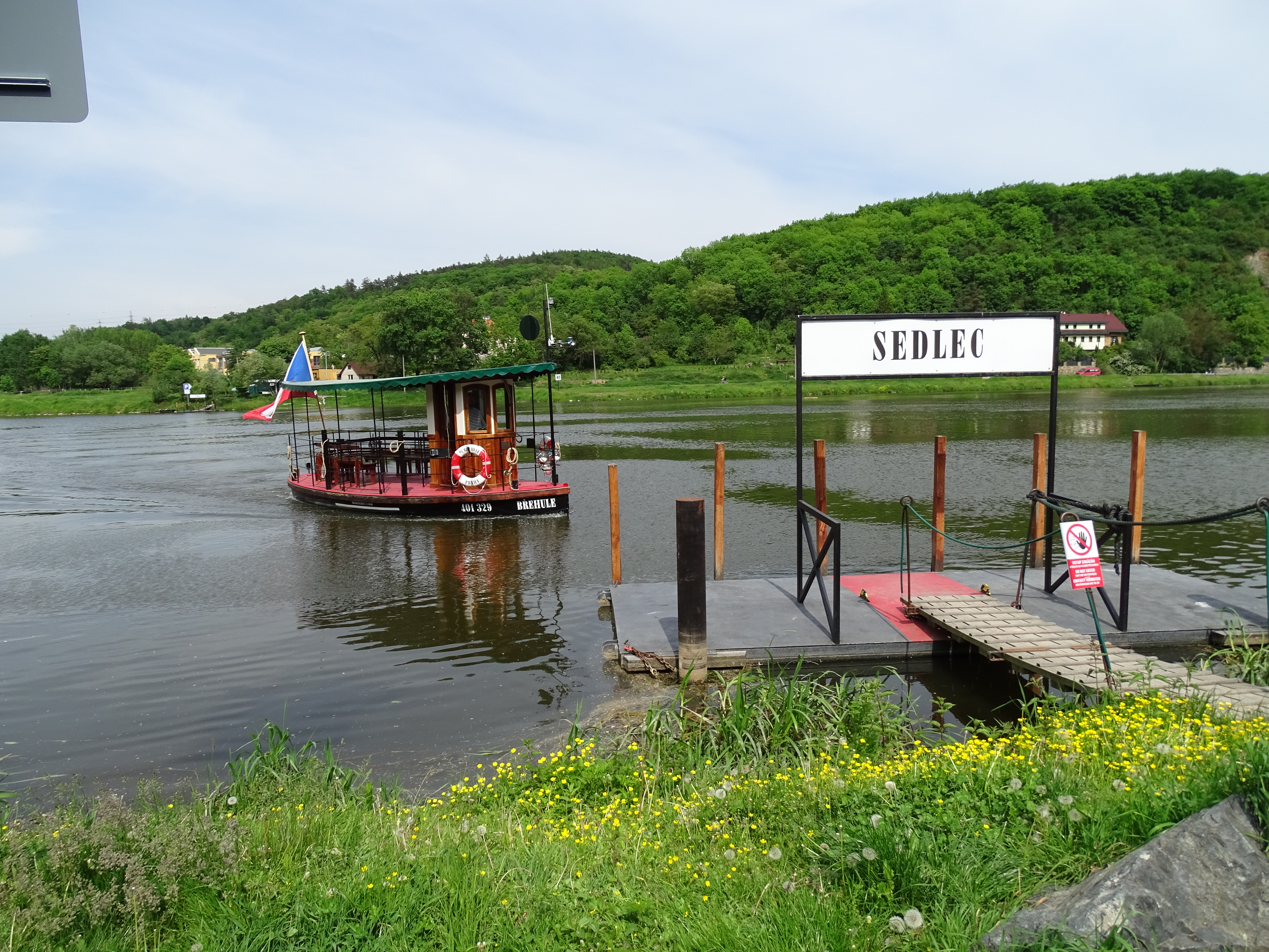 Prague-Sedlec, Czechia, Vltava ferry, Břehule boat.